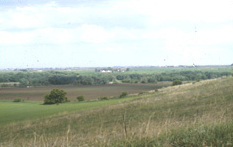 The Blood Run Site, a National Historic Landmark divided between Lyon County, Iowa and Lincoln County, South Dakota, in the United States. Picture shows the South Dakota part of the site as viewed from Iowa.